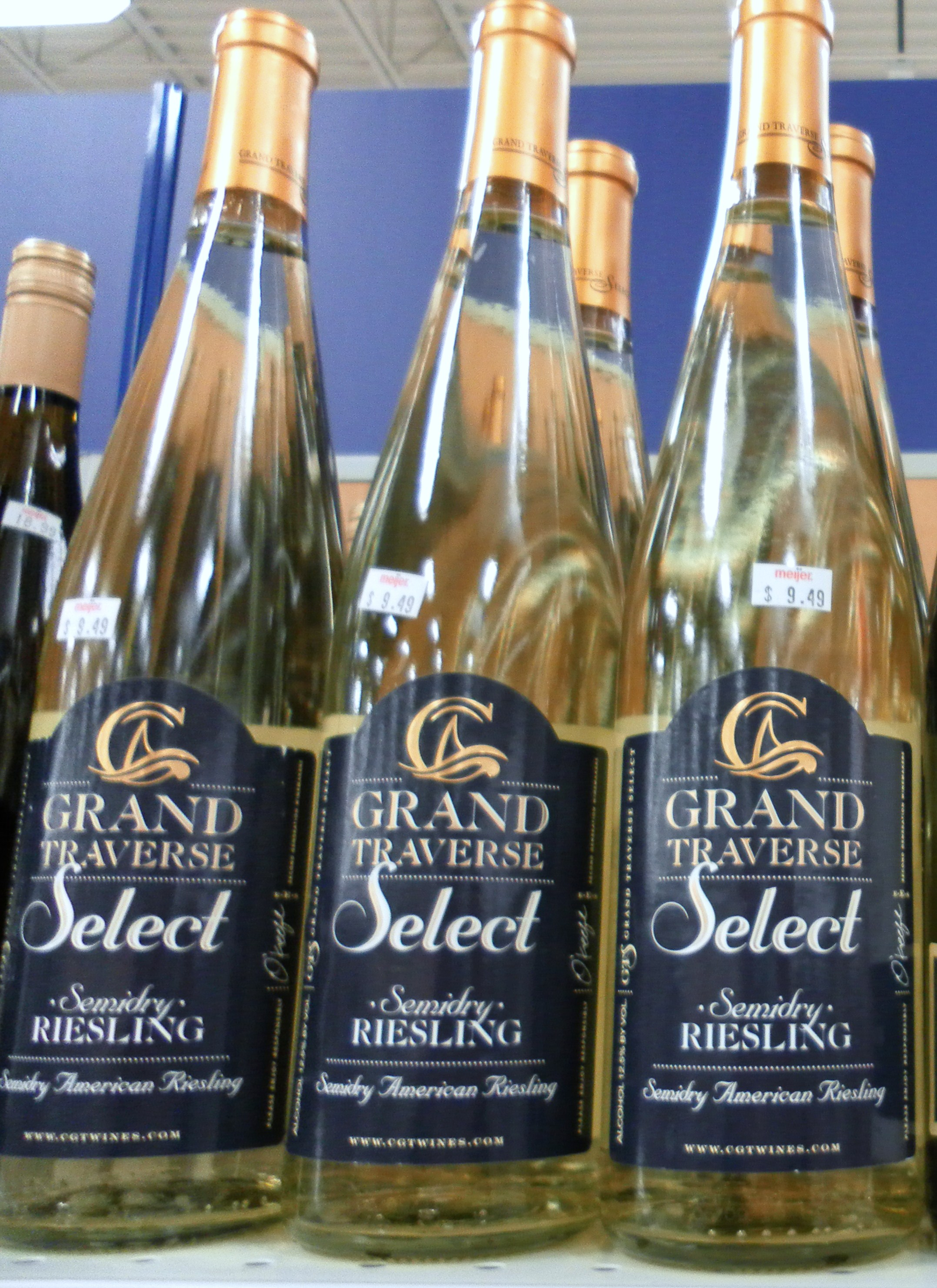 Chateau Grand Traverse Select Semidry Riesling